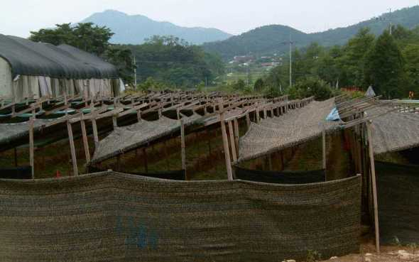 Culture of Korea Ginseng Picture taken on the island of Kangwha, August 2004 (c) Stephen Andrew, license Wikipedia Ginseng is a plant prized for its roots, it is necessary to protect it from direct sunlight, hence these awnings fabric or rice straw in the hot season. The opening is directed towards the north (right of photo). After several years of crop growth, the field must lie fallow and can not be used again for ginseng for several years afterward.